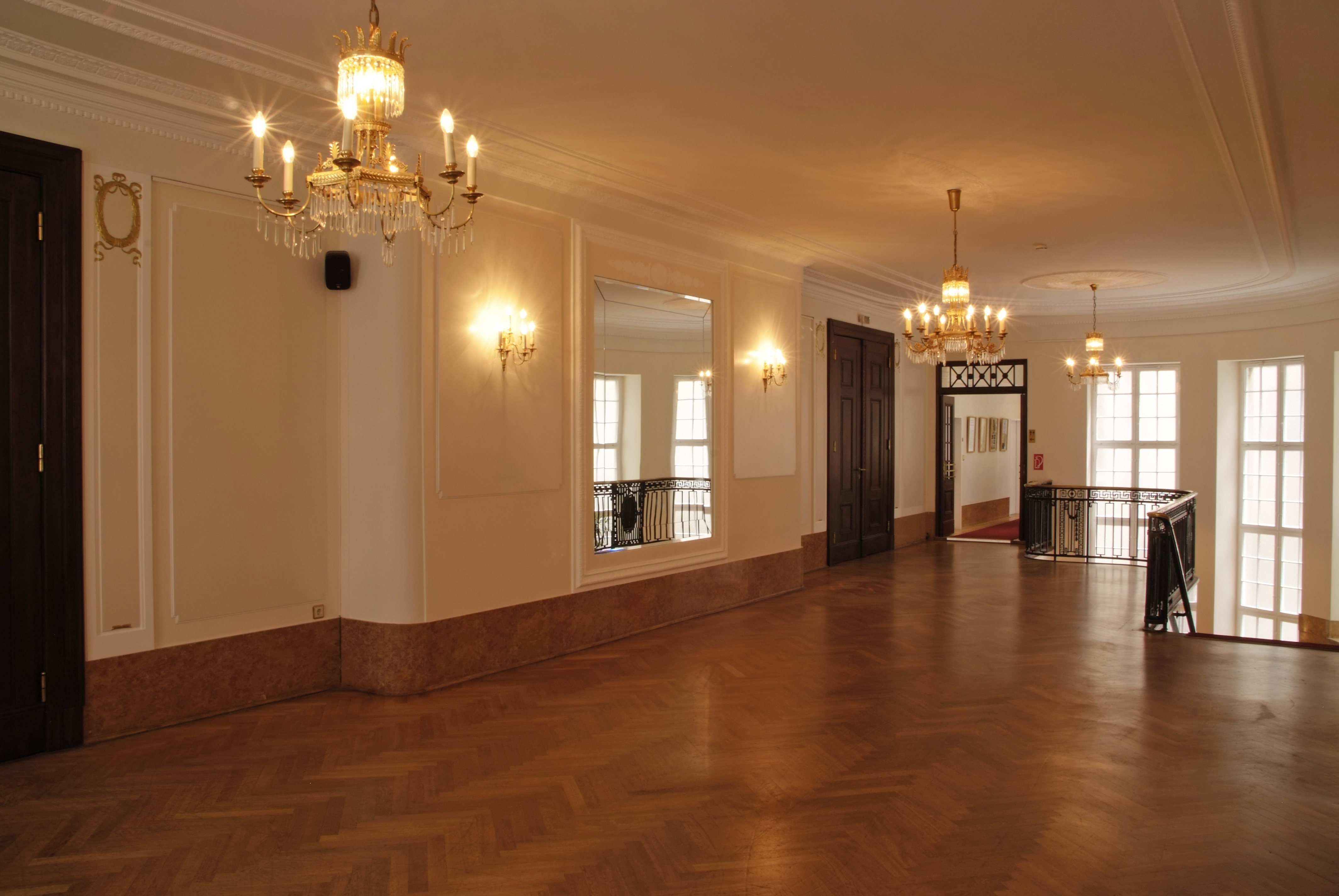 Wandelhalle of the Meistersaal, Berlin